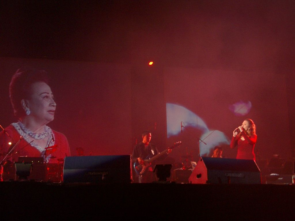 Kamala Sukosol Clapp (left, on screen) and her daughter, Marisa Sukosol Nunbhakdi at a concert in Chiang Mai